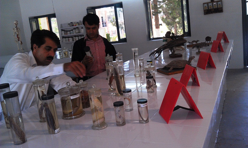 Public Schools & Colleges Jutial Gilgit